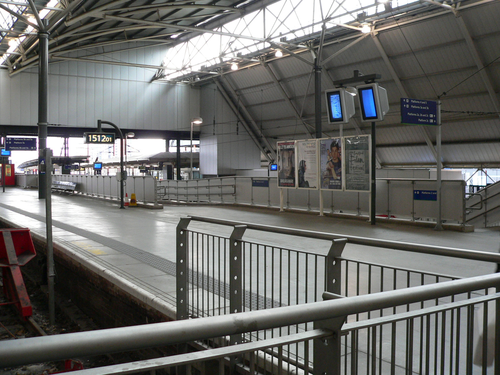 Platforms 5 and the concourse leading to platforms 3 and 4 at Leeds City railway station. This station is arranged with low-numbered terminal platforms on the nortern side of the station, and the higher numbered through platforms on the south side, the design reflecting its origins as separate adjacent stations.